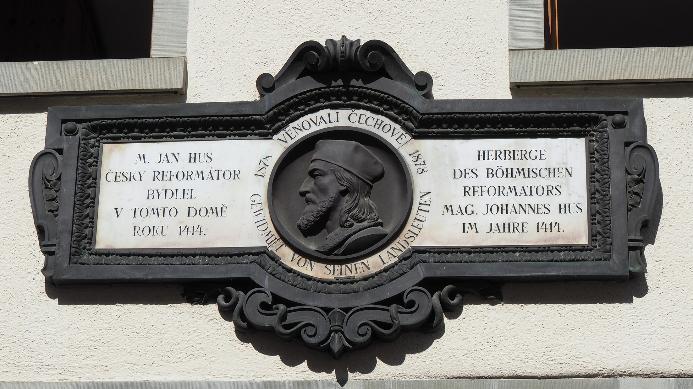 Hus museum in Konstanz.